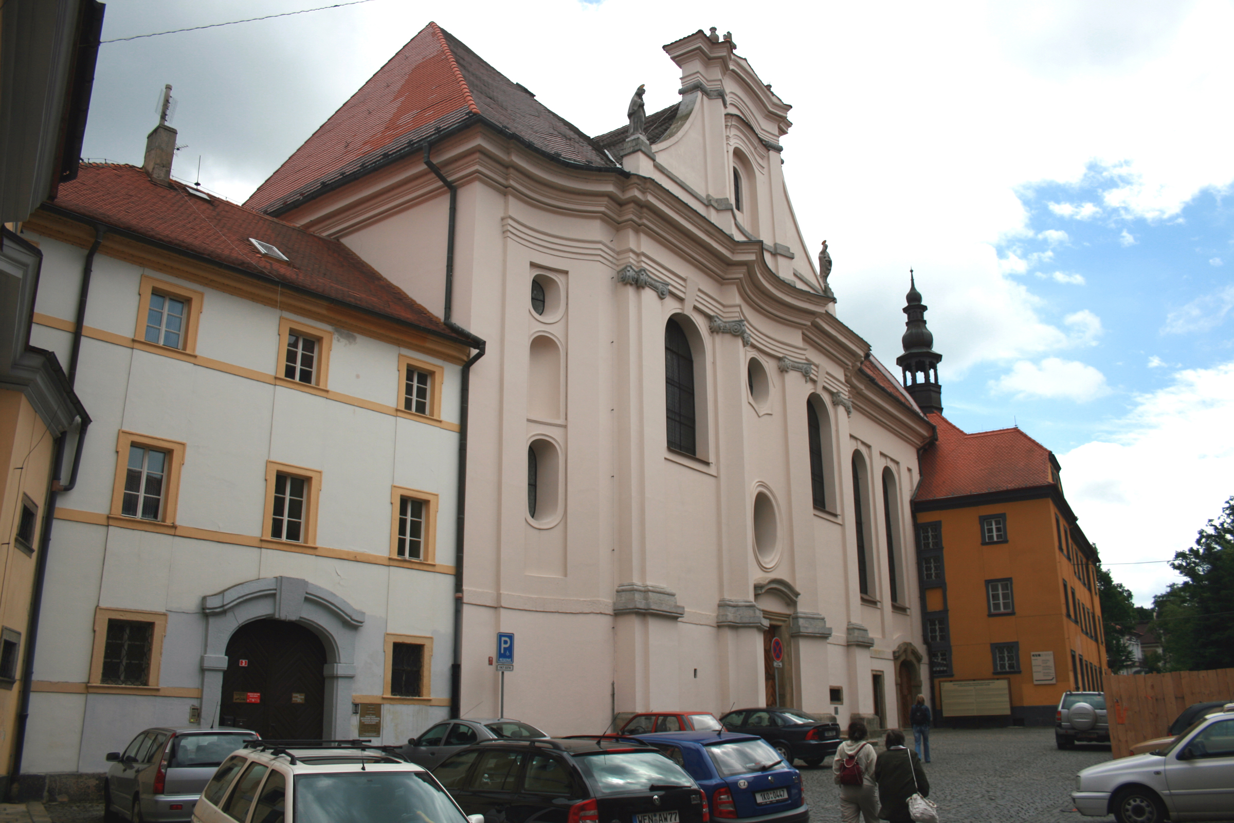 Church of St. Clara in Cheb, Czech Republic